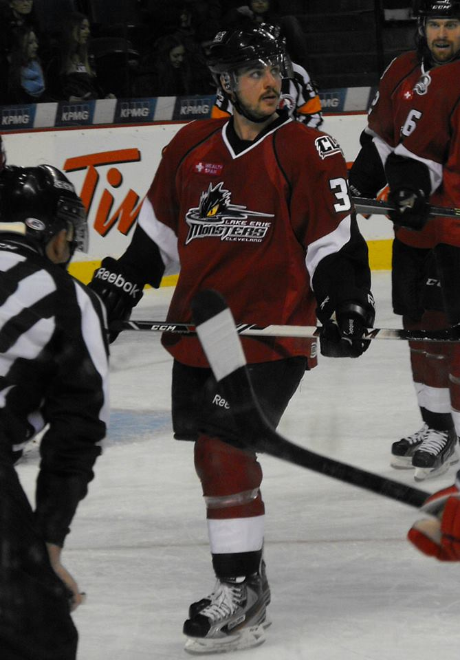 Taken 11/30/2013 @ Copps Coliseum, Hamilton, ON